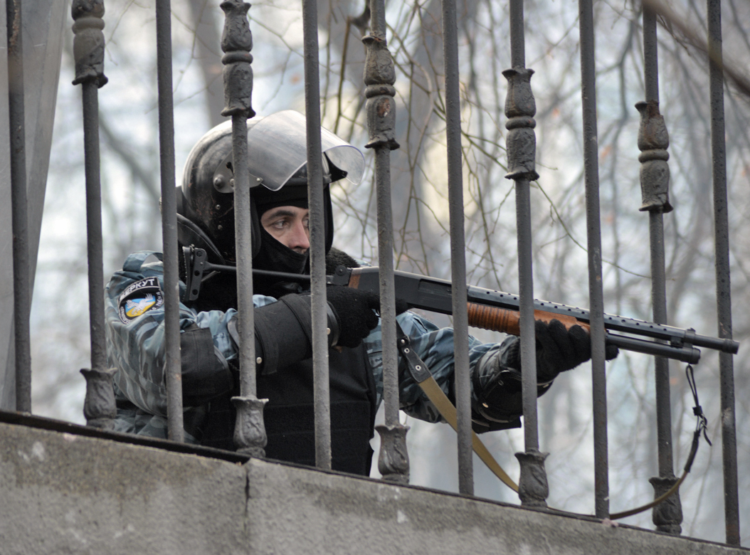 Berkut special police soldier holding a 12 gauge pump-action shotgun (Fort 500 A) pointed at the line of protesters during Hrushevskoho Street riots, Euromaidan Protests. Events of Jan 19, 2014